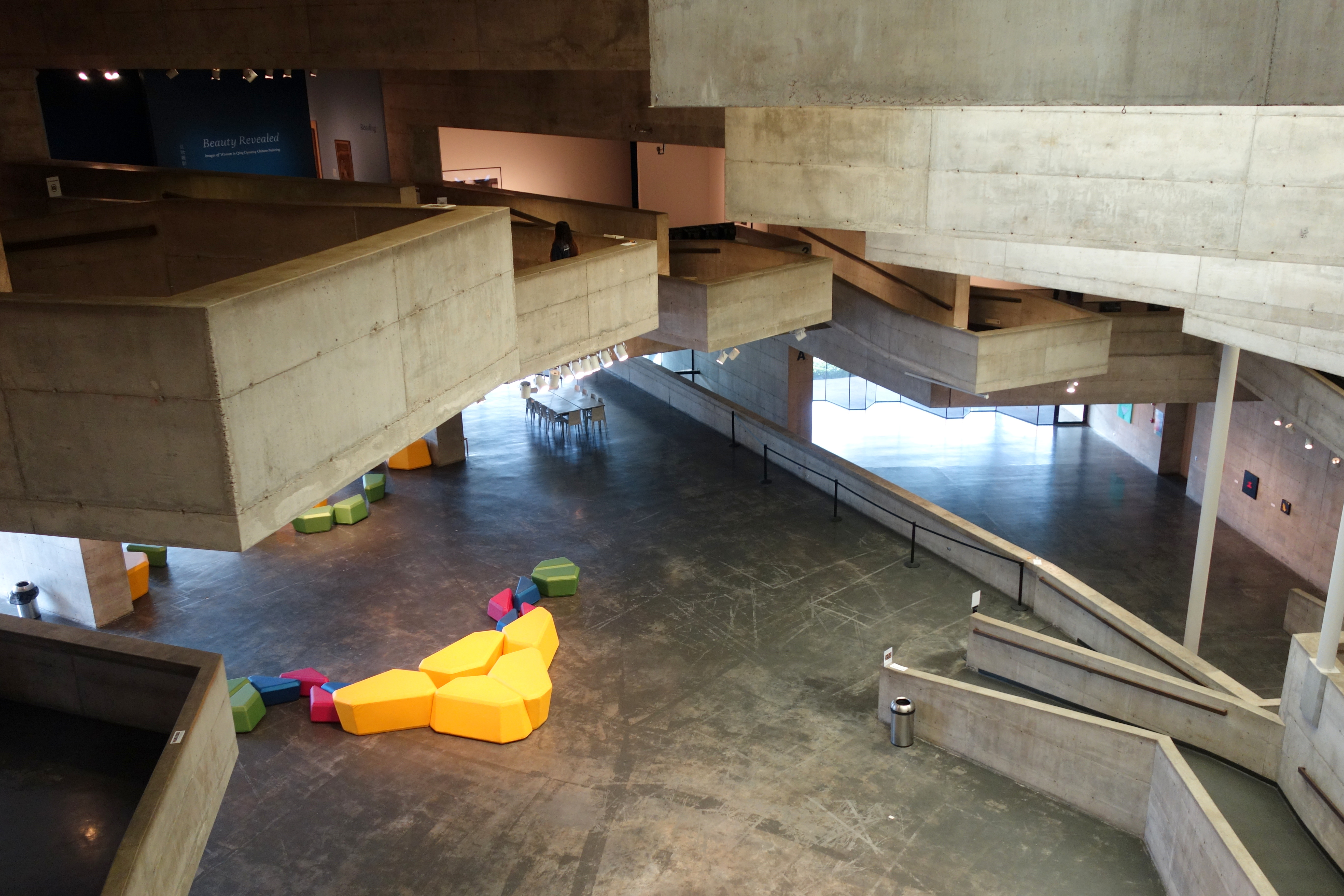 Interior of the Berkeley Art Museum and Pacific Film Archive, 2625 Durant Avenue #2250, Berkeley, California, USA. This museum is part of the University of California, Berkeley. Photography was permitted without restriction in this part of the museum.